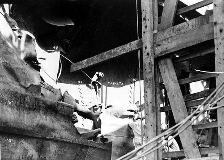 Portside damage from Japanese submarine I-15 torpedo (21-inch/oxygen propelled). Photo taken 11 Oct. 1942 at Pearl Harbor where permanent repairs were done.